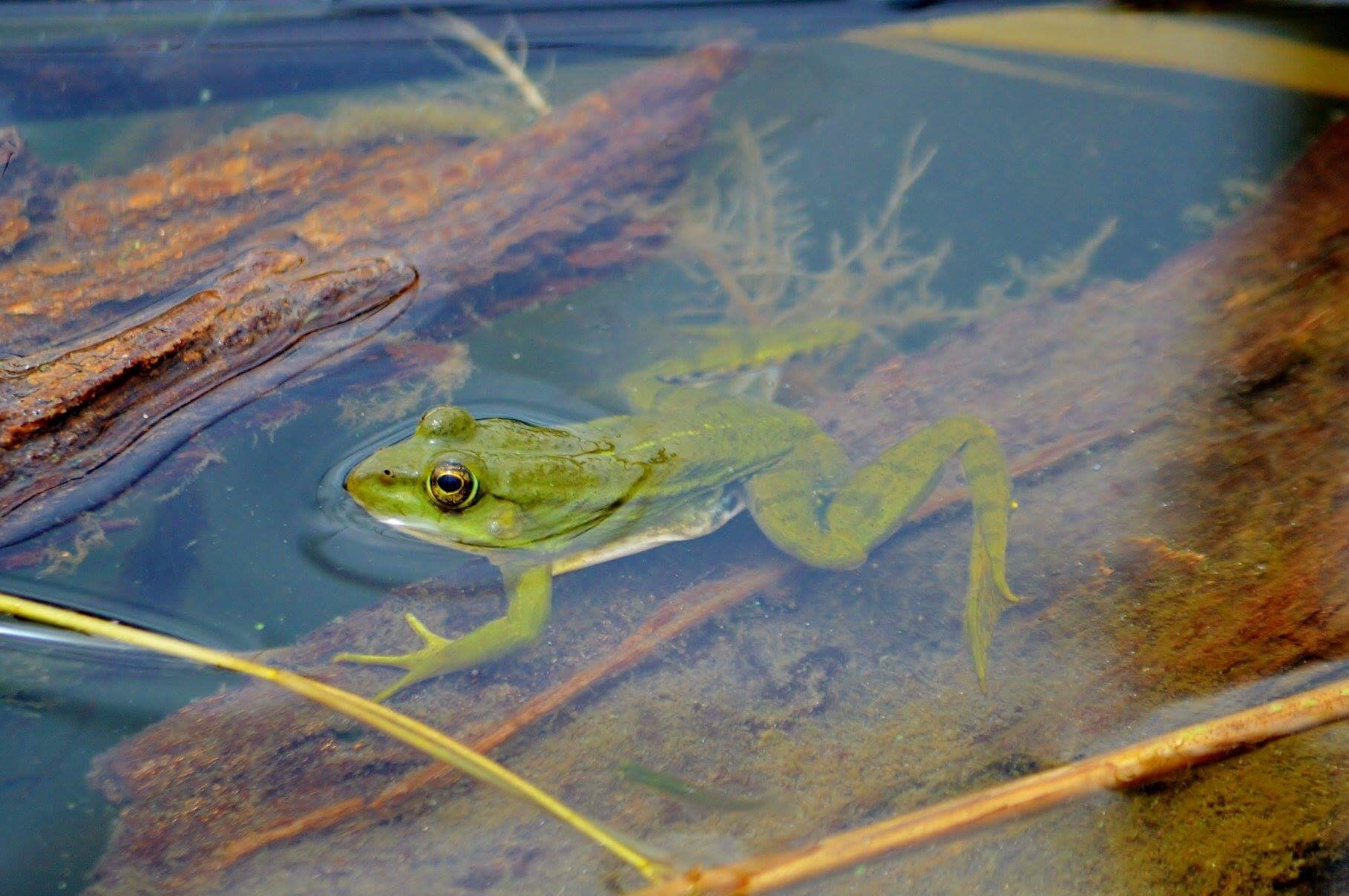 This is a photography of Natura 2000 protected area with ID GR1230003